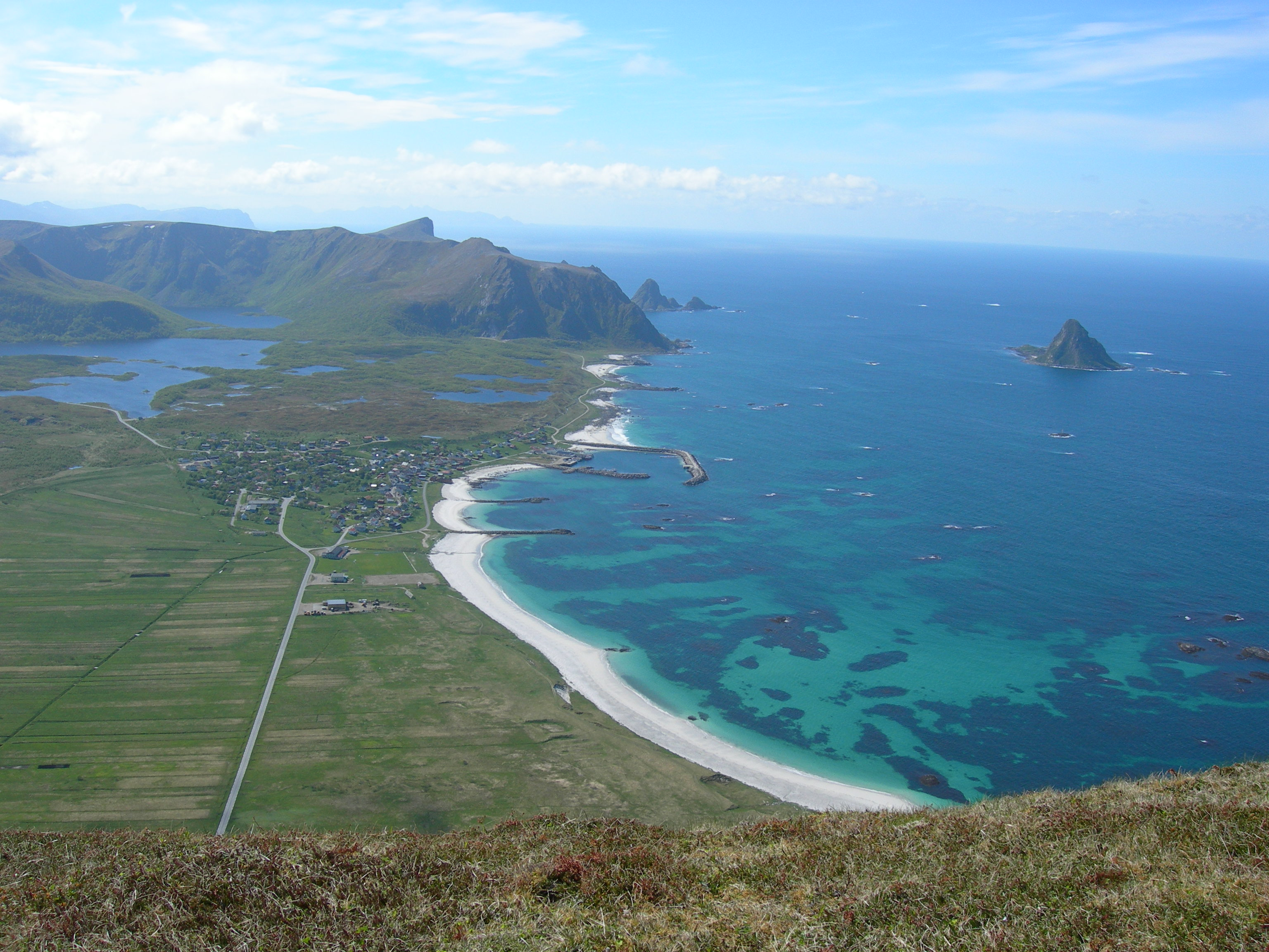 Bleik village and Bleik island as seen from Mount Royken. Photo taken on June 4th 2006